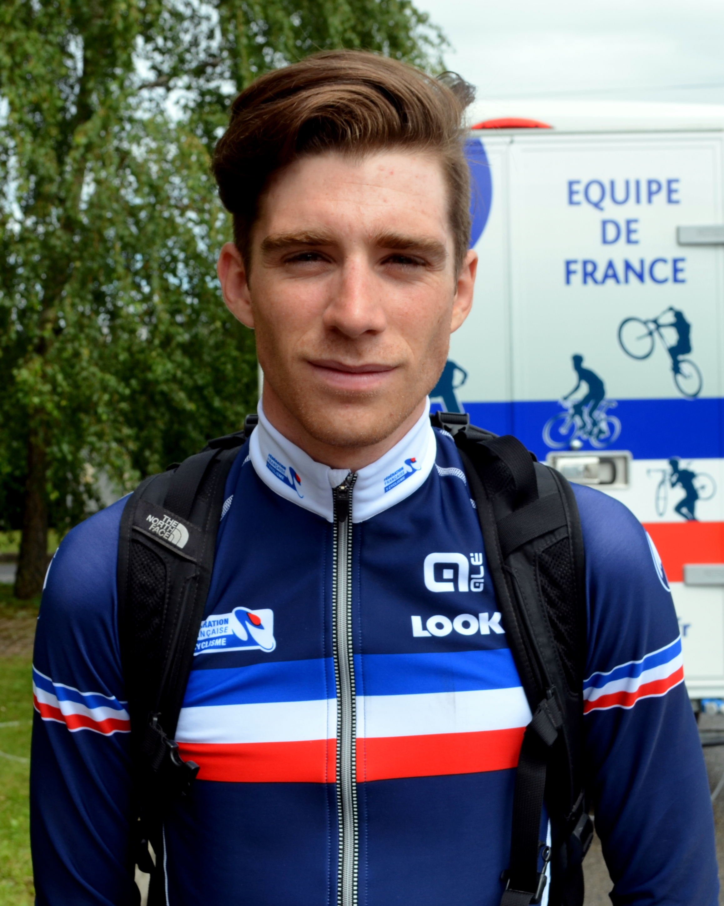 Tour de l'Ain 2014 - Stage 3: hotel before beginning.